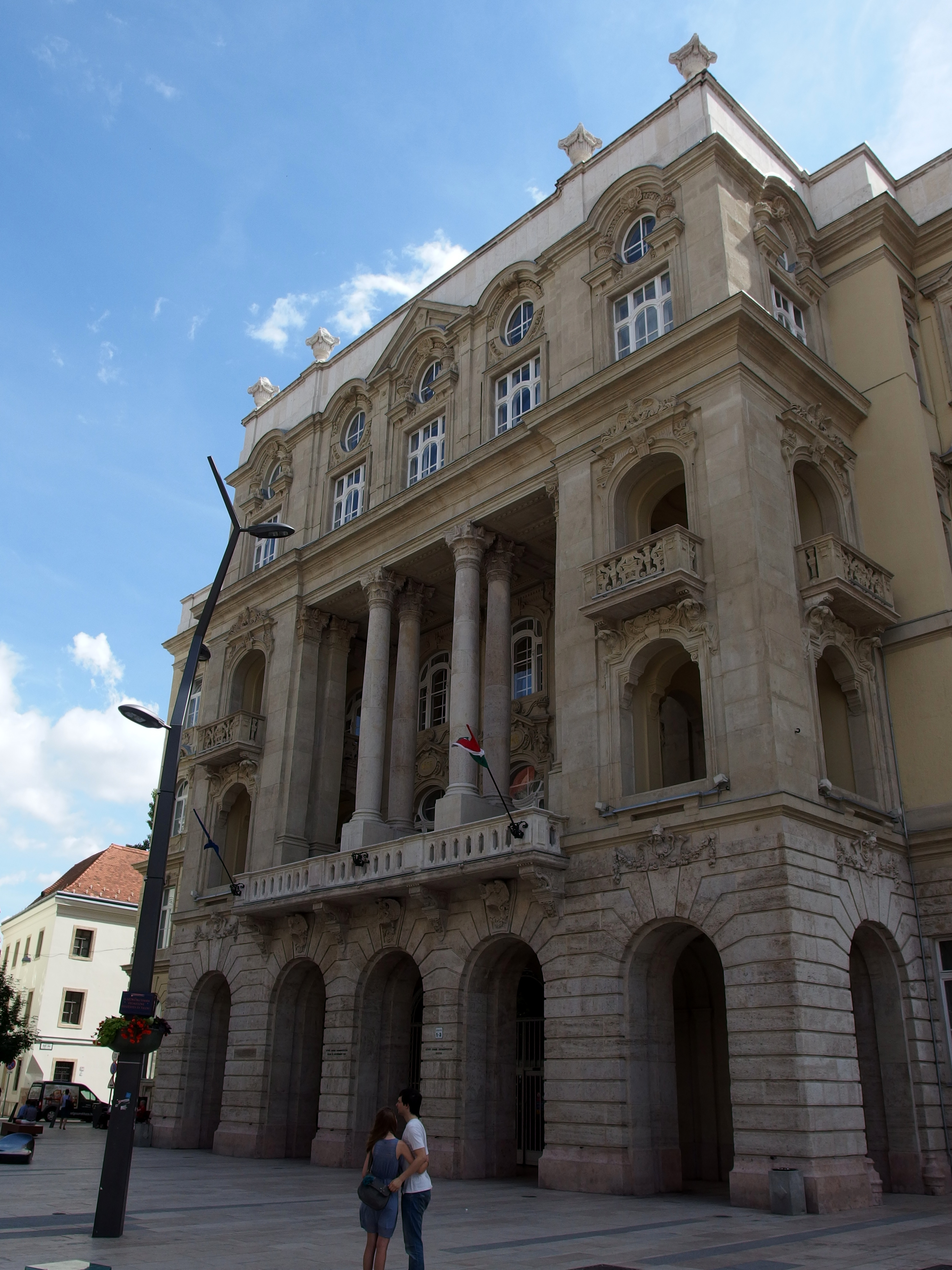 The main building of Eötvös Loránd University Faculty of Law, 1–3 Egyetem tér, 1053, Budapest, Hungary